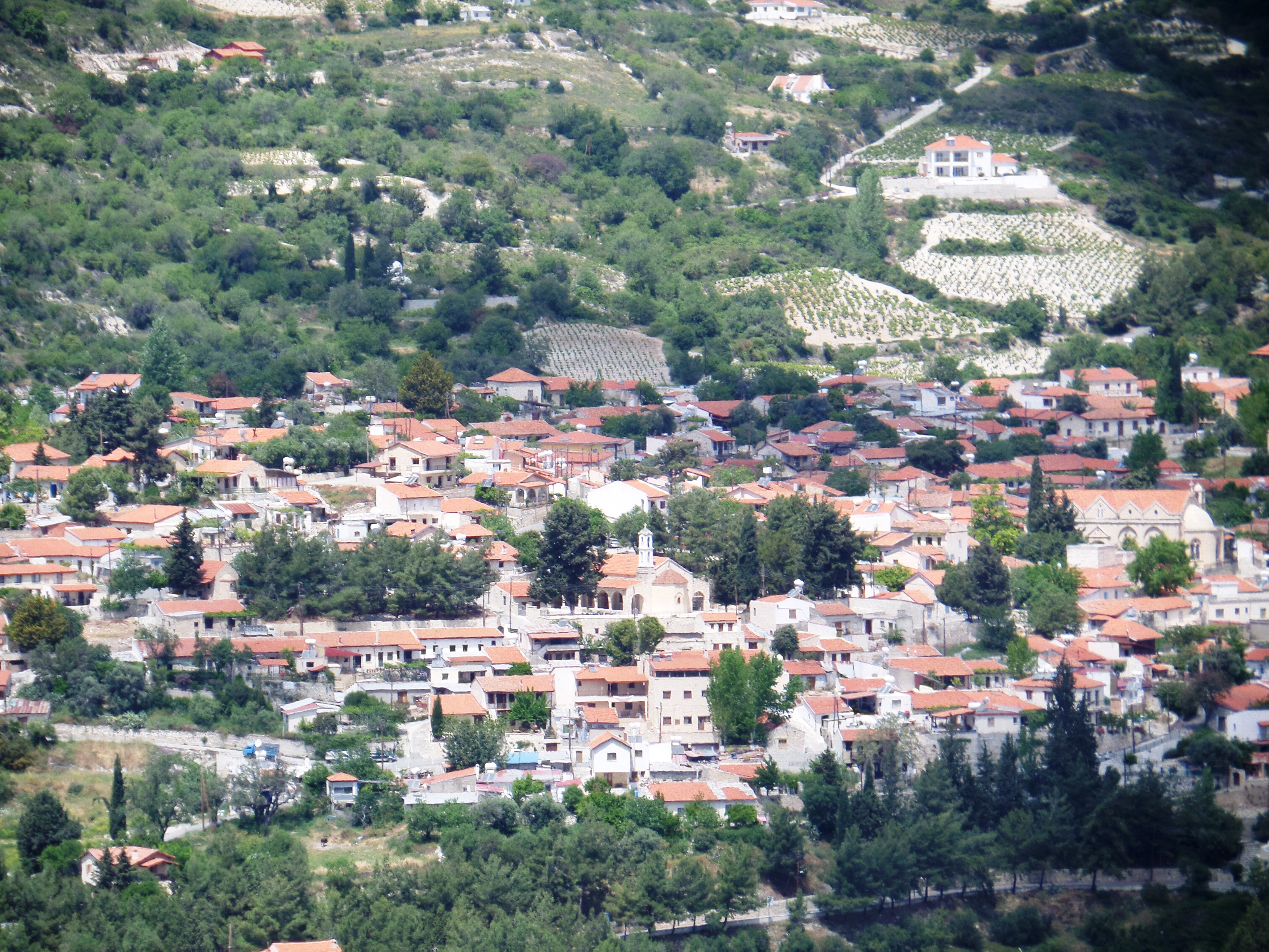 View of Koilani.